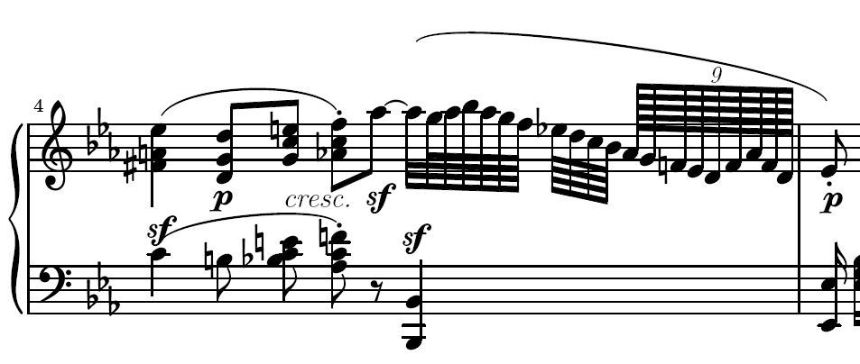 Screen grab from pathetique-1-a4.pdf, a public-domain engraving of Ludwig van Beethoven's Piano Sonata No. 8 (Pathetique), op. 13, from the Mutopia project